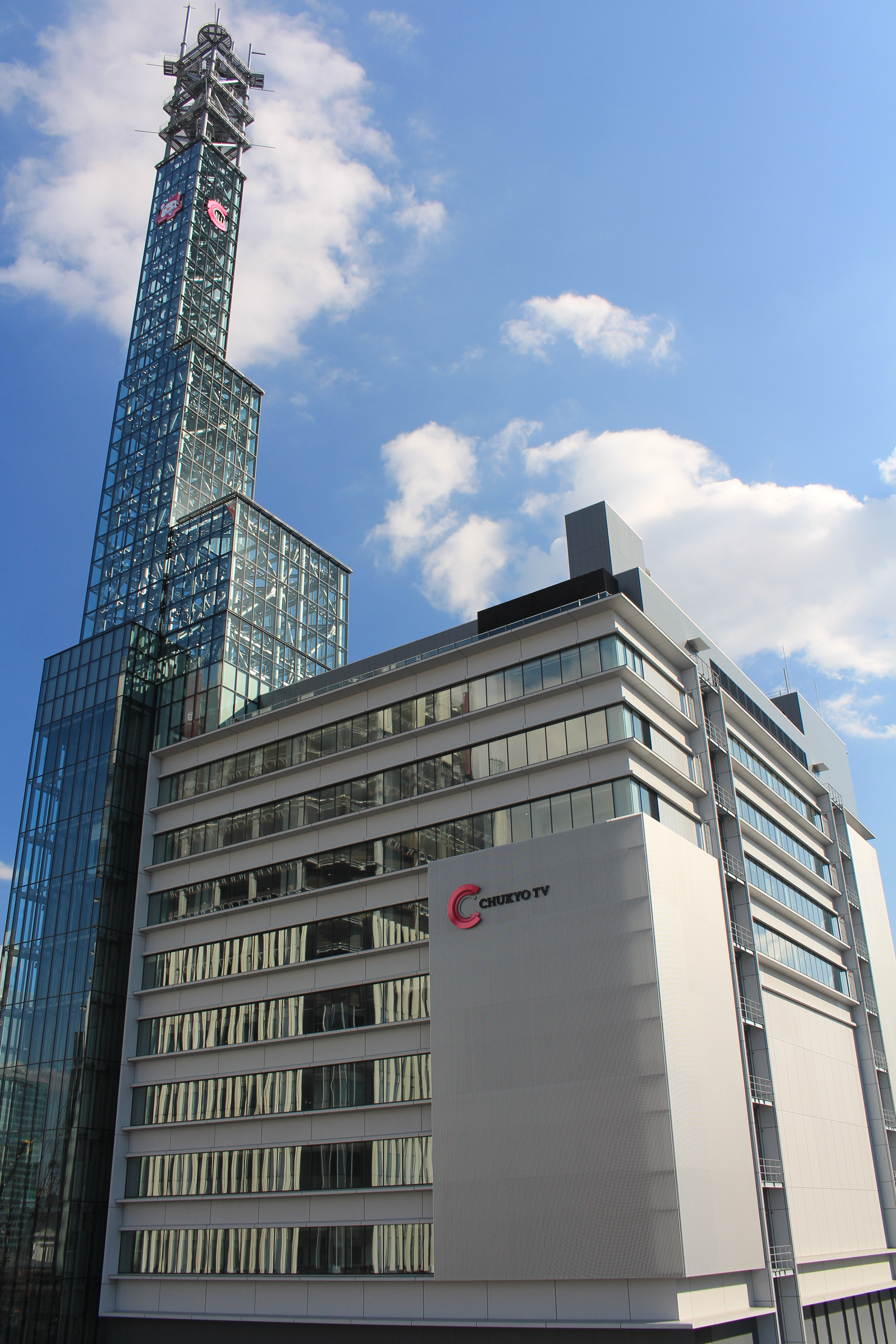 New building of Chukyo TV Broadcasting in Sasashima-raibu24, Nakakura-ku, Nagoya, Aichi prefecture, Japan.